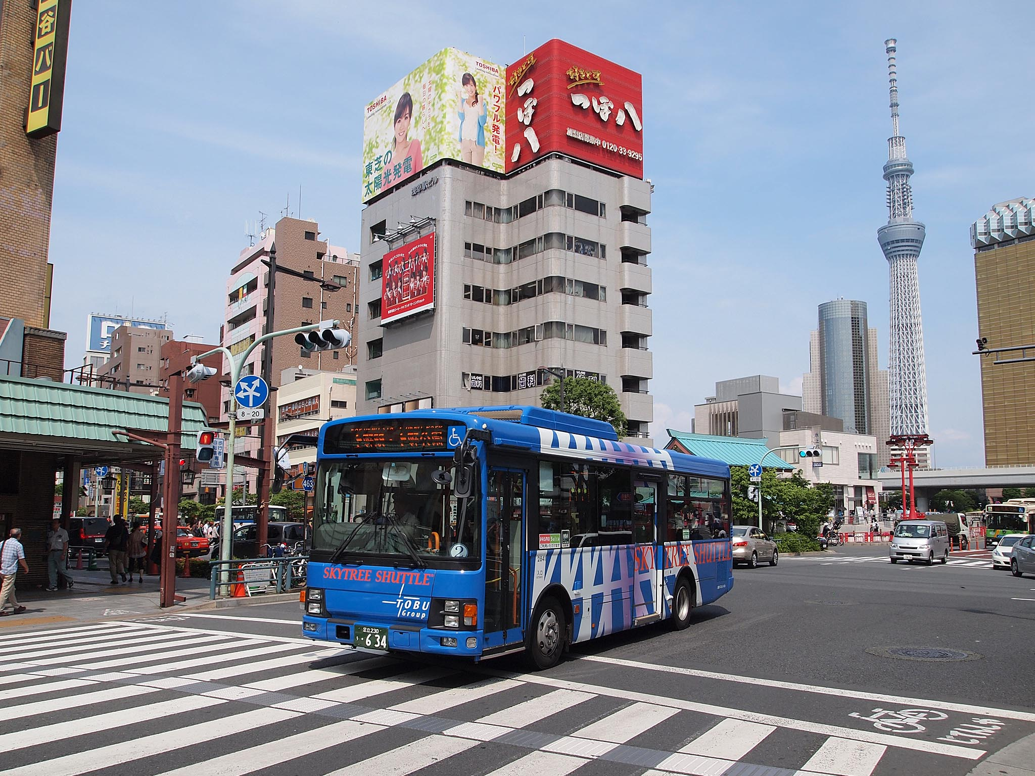 Fleet of "Skytree Shuttle" Ueno and Asakusa route, operated by Tobu Bus Central. Model: Isuzu Erga Mio PDG-LR234J2 License plate: TKA230 KA-634 ex. TKA200 KA2229 Place: Asakusa, Taito Ward, Tokyo Japan